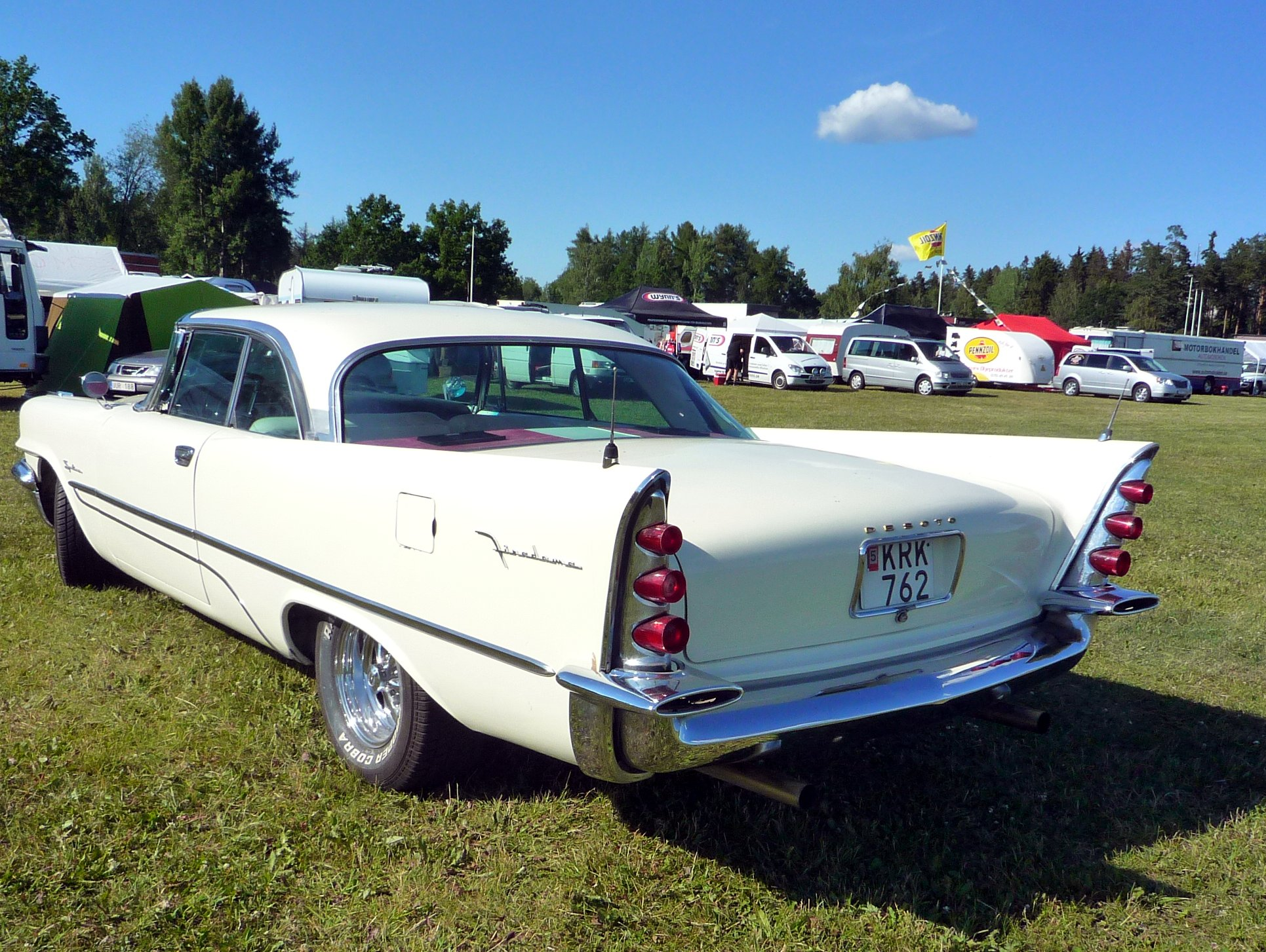 White DeSoto Firedome